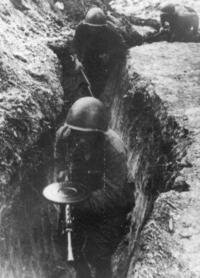 "The Soviet Verdun" : Defenders of Leningrad.Leningrad, which has been likened to Verdun through its indomitable resistance against the German siege, has since September 1941 withstood the the enemy's worst. Every inhabitant has a war job, and all undergo military training, turning the City into a formidable and hard-hitting garrison. Photo shows a Red Army unit taking up a new firing position on the Leningrad front.USSR Official Photograph NO.RR.930 issued by the Ministry of Information.